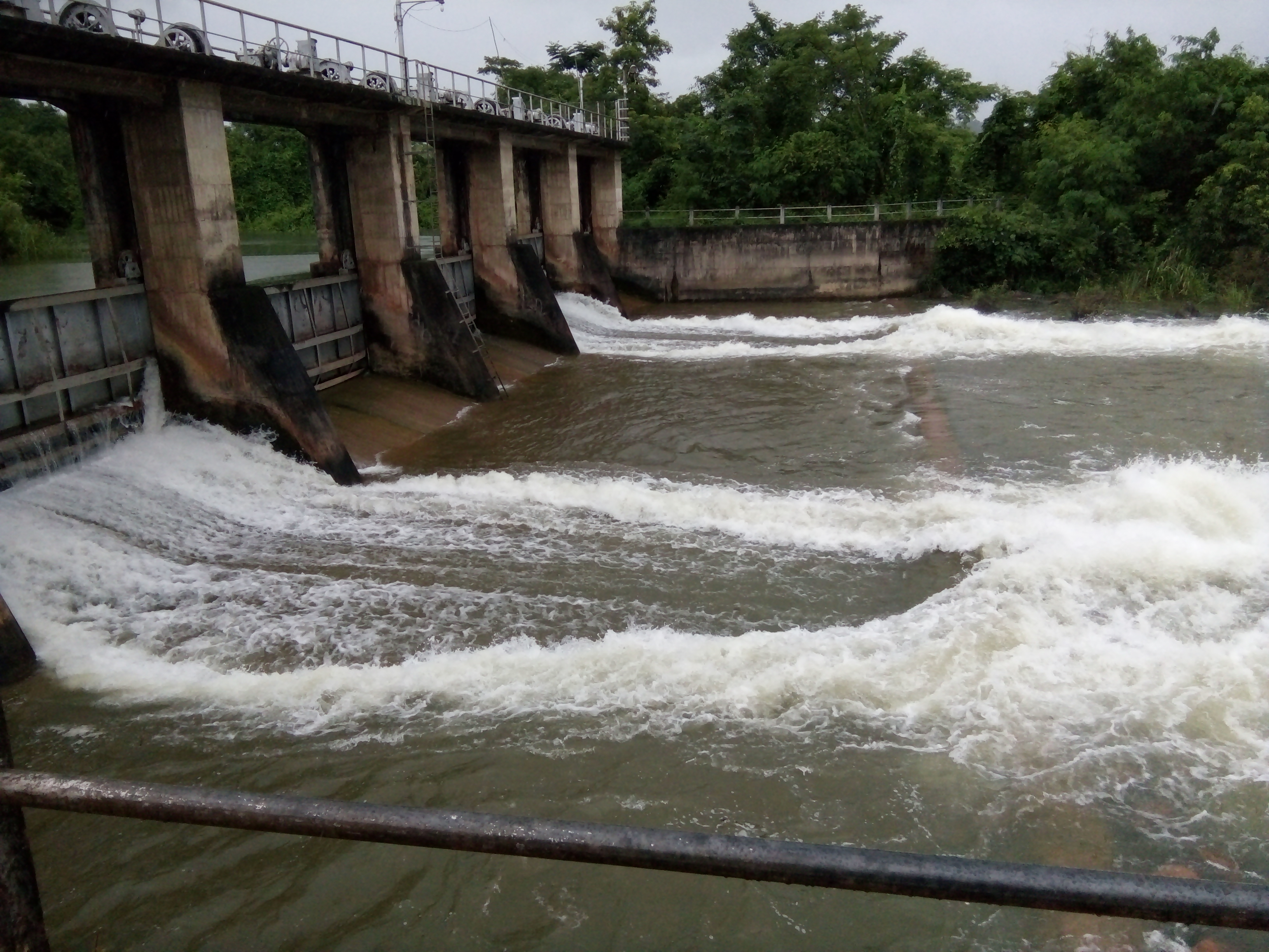 The Lawpita Power Station No.1